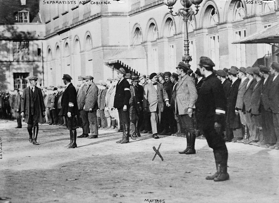 Josef Friedrich Matthes - Separatists at Koblenz